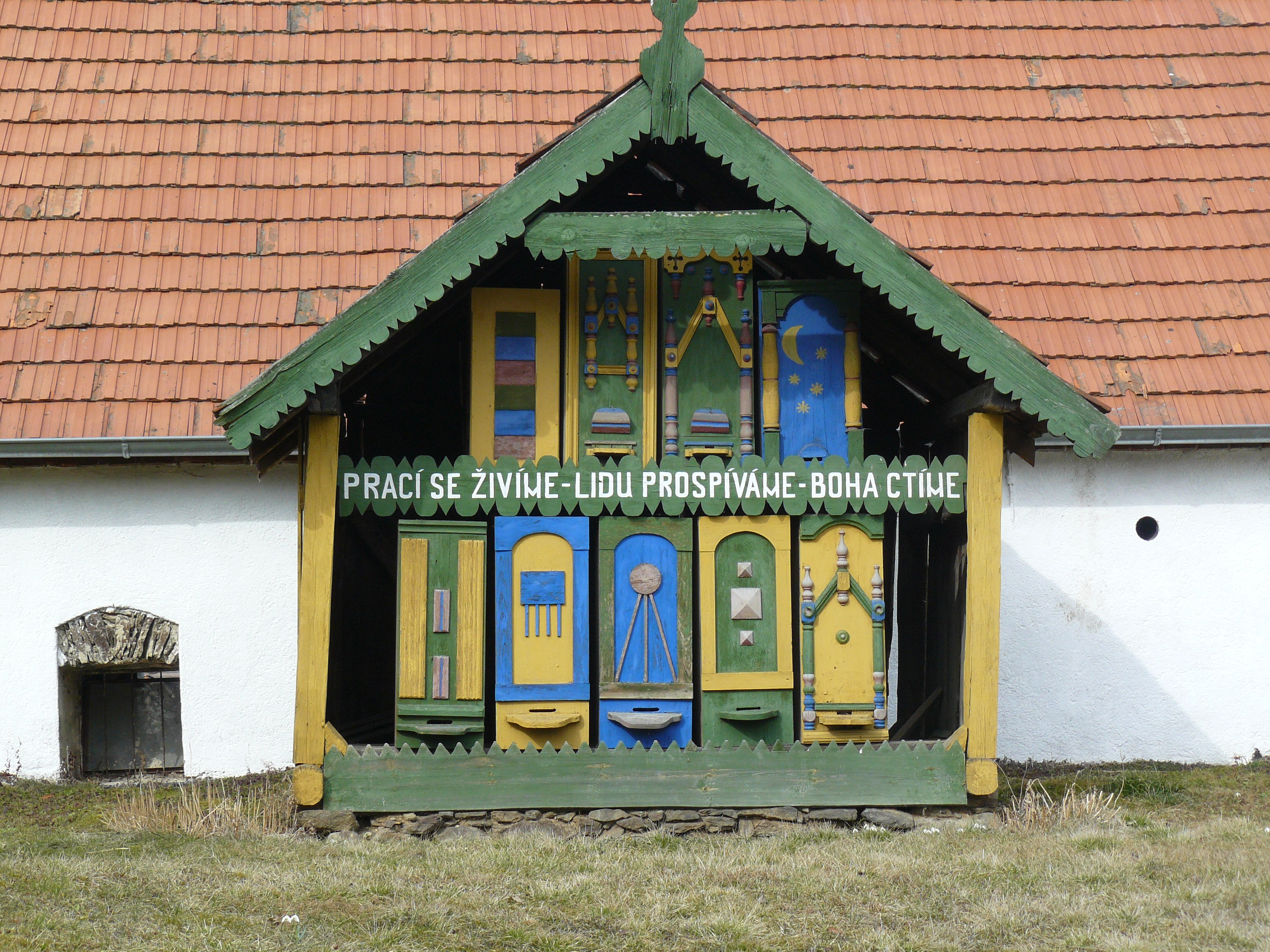 Beehive near house No 14, Budkov, Prachatice District, Czech Republic